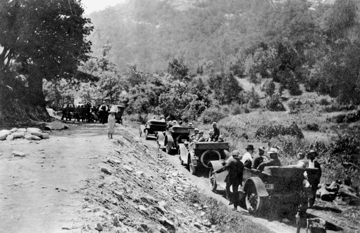 Good Roads Movement in North Carolina - presumed protest note : Harriet Morehead Berry (July 22, 1877 — March 24, 1940) was an American civic leader, suffragist, and editor, active in the Good Roads Movement in North Carolina